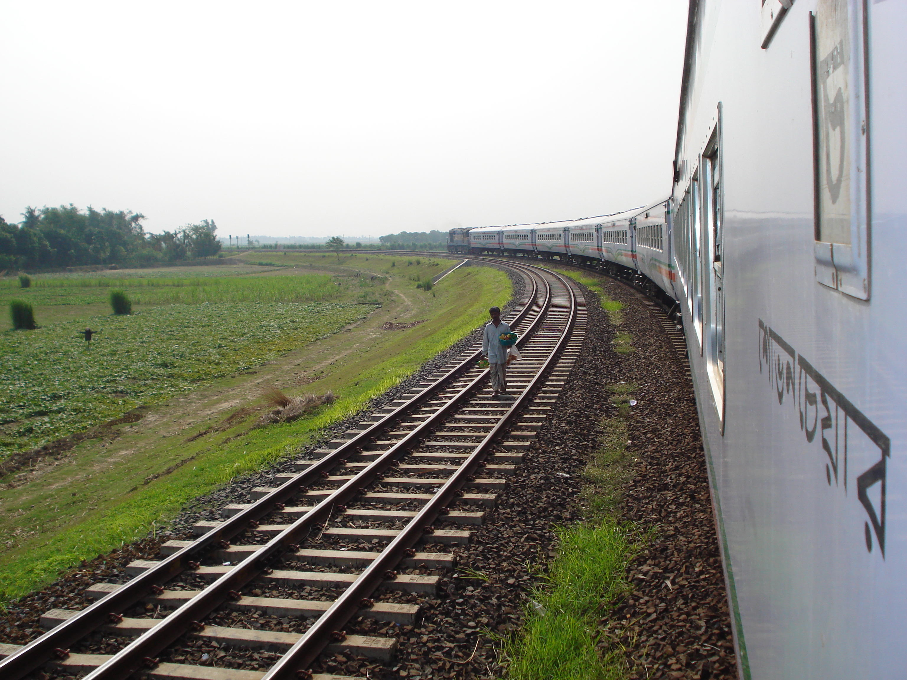 েরল কঁিসং